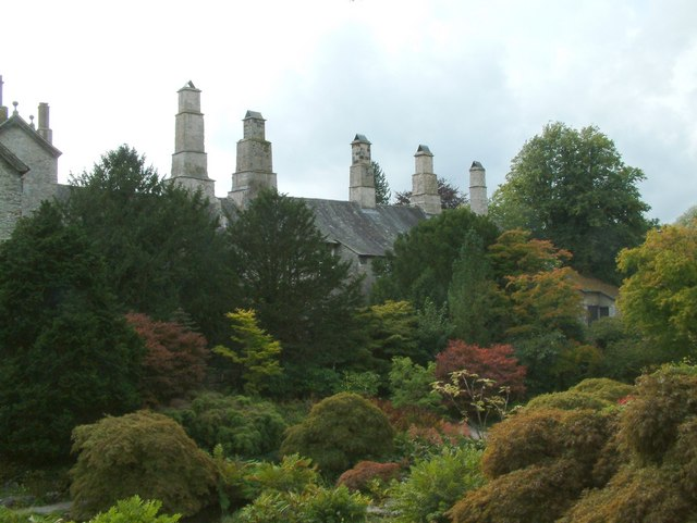 Sizergh Castle Garden owned by the National Trust